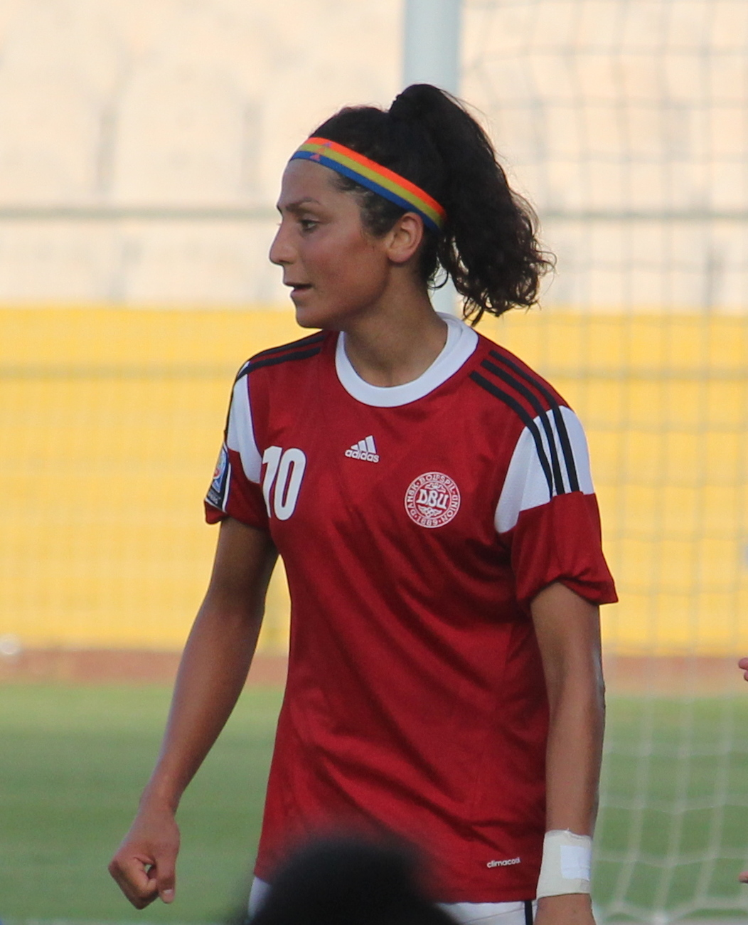 Nadia Nadim. Israel - Denmark, 2015 FIFA Women's World Cup qualification UEFA Group 3, 19 June 2014.